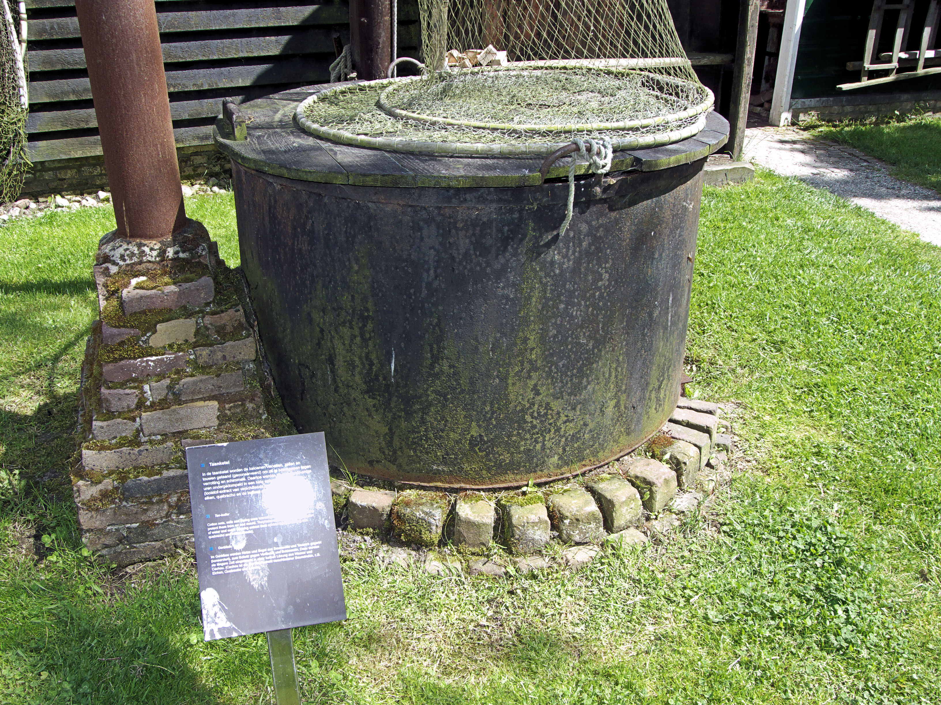 Tan vat